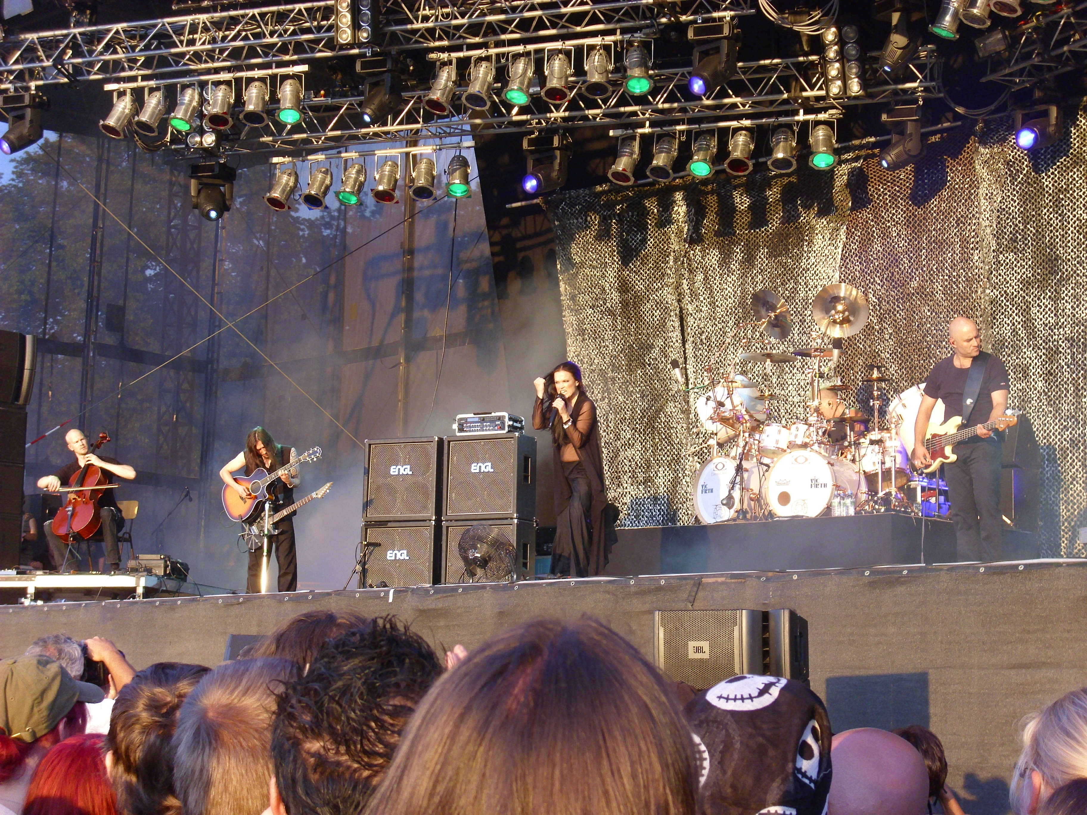 Tarja Turunen at Wacken Open Air 2010.